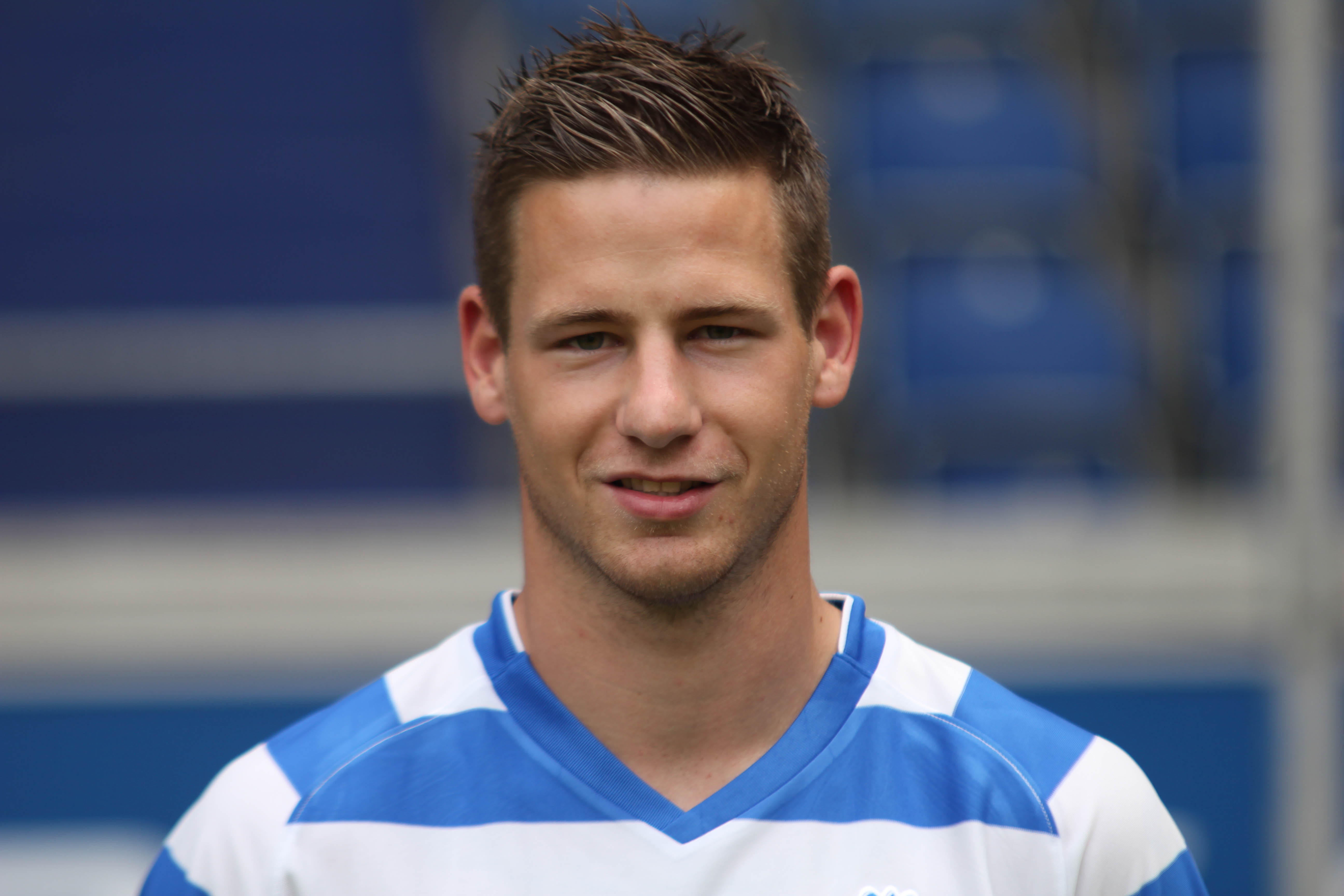 German footballer Timo Perthel, MSV Duisburg